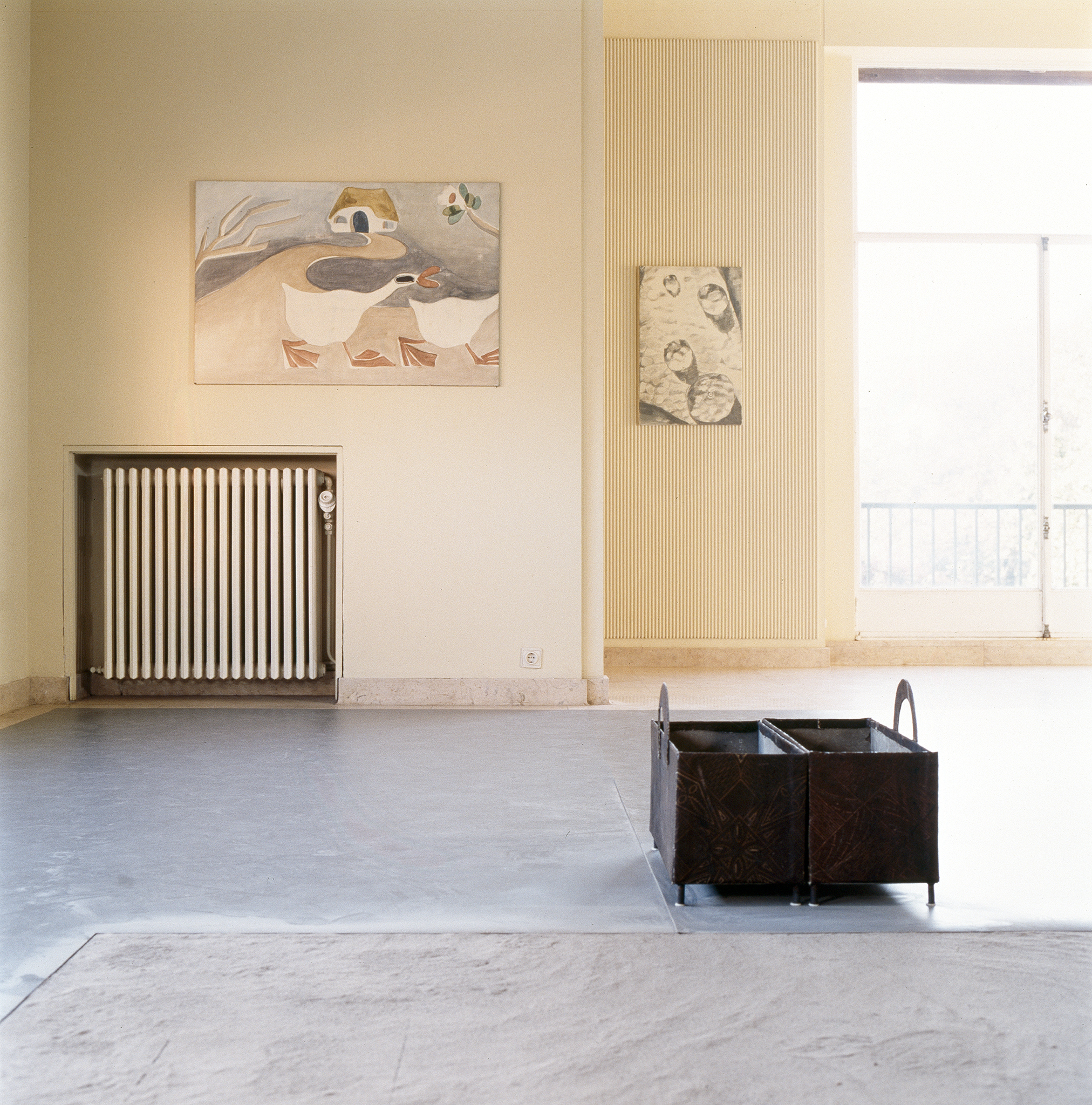 Mirosław Balka & Luc Tuymans - installation view: Privacy: Tuymans – Balka, Serralves, Porto (1998)